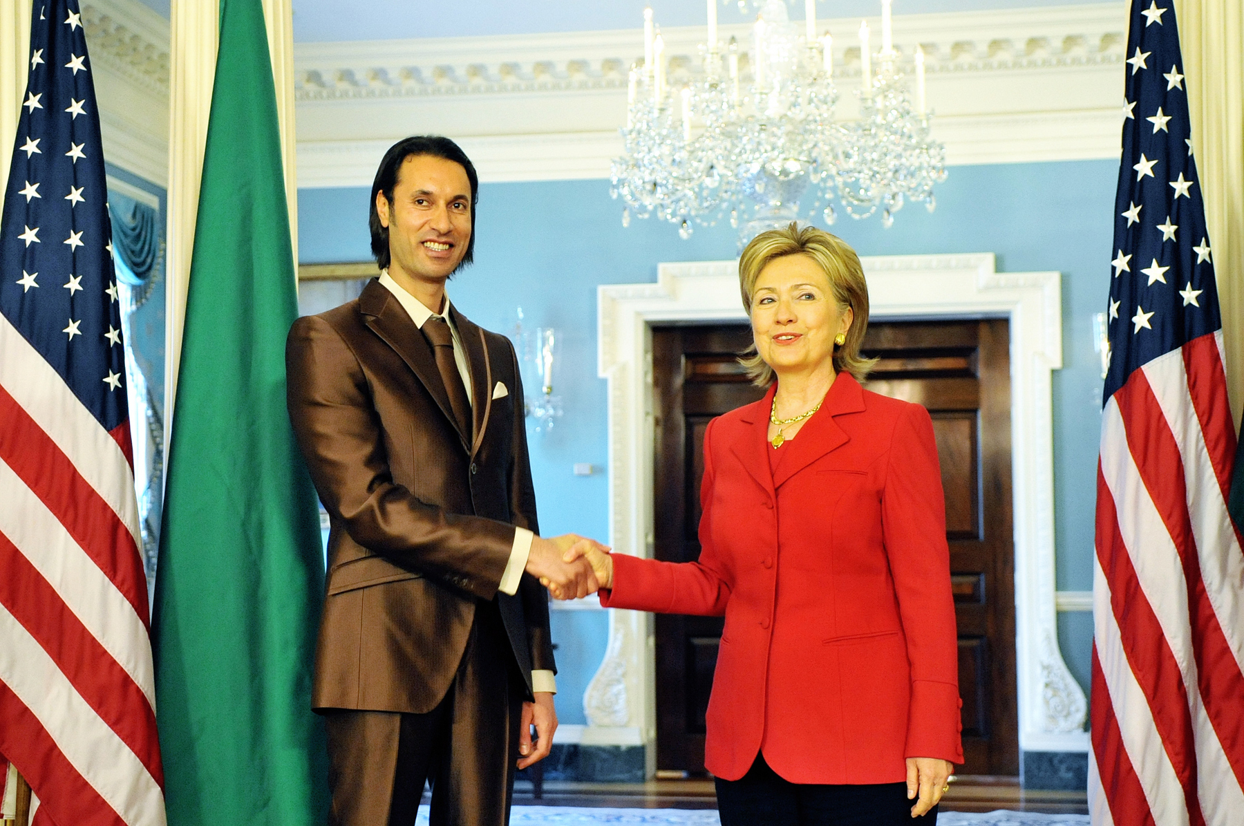 U.S. Secretary of State Hillary Rodham Clinton meets Libyan National Security Advisor Dr. Mutassim Qadhafi at the U.S. Department of State in Washington, DC April 21, 2009. [State Department photo]